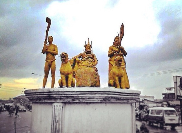 This right here is the statue of the Oba of Benin and his servants. Right in the centre of the ancient city of Benin ( kings square) which Is also a stone throw from the Royal palace. This is an image of Cultural Fashion or Adornment from Nigeria